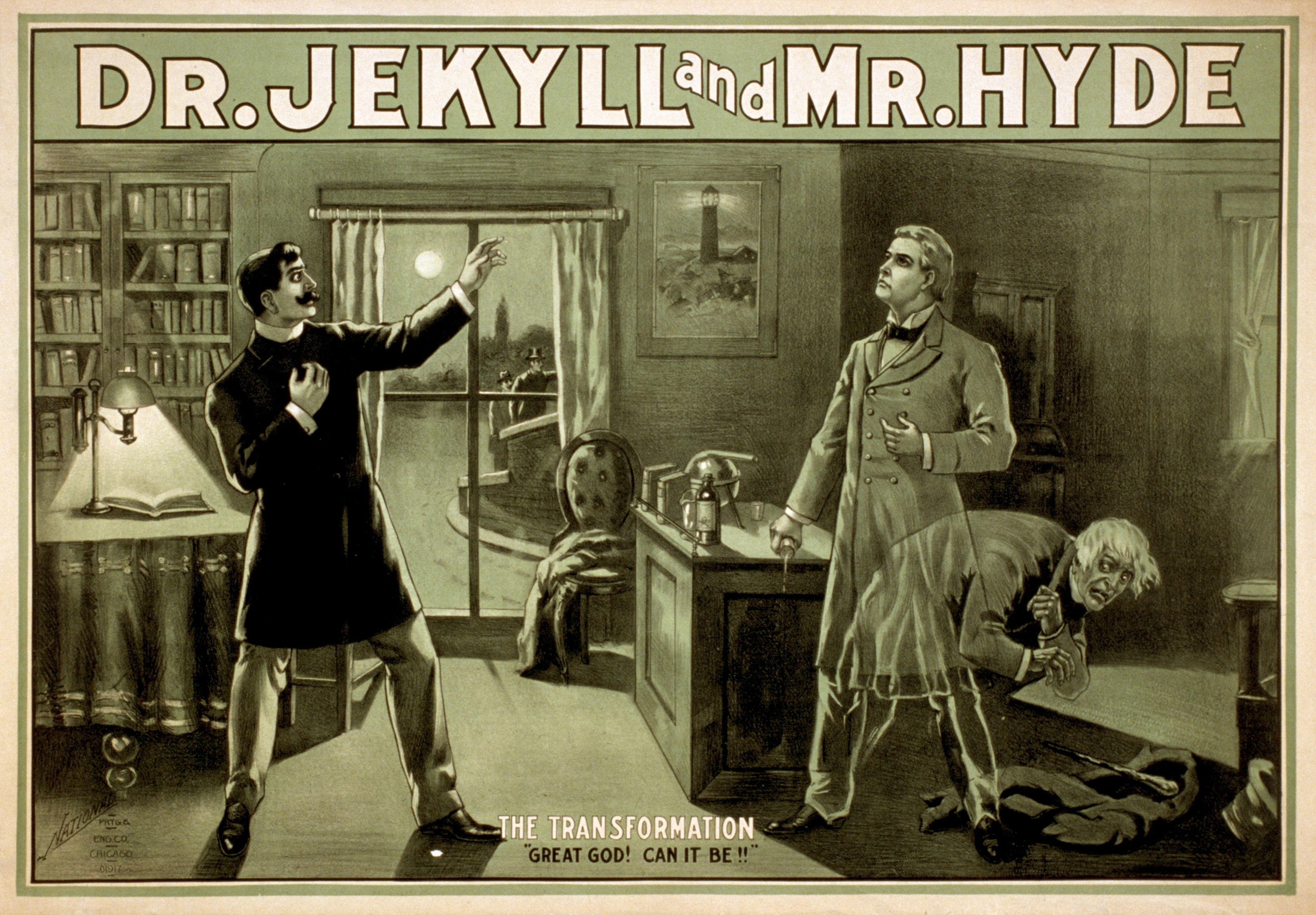 Poster for a theatrical adaptation of Strange Case of Dr Jekyll and Mr Hyde. Converted losslessly from .tif to .png by uploader.